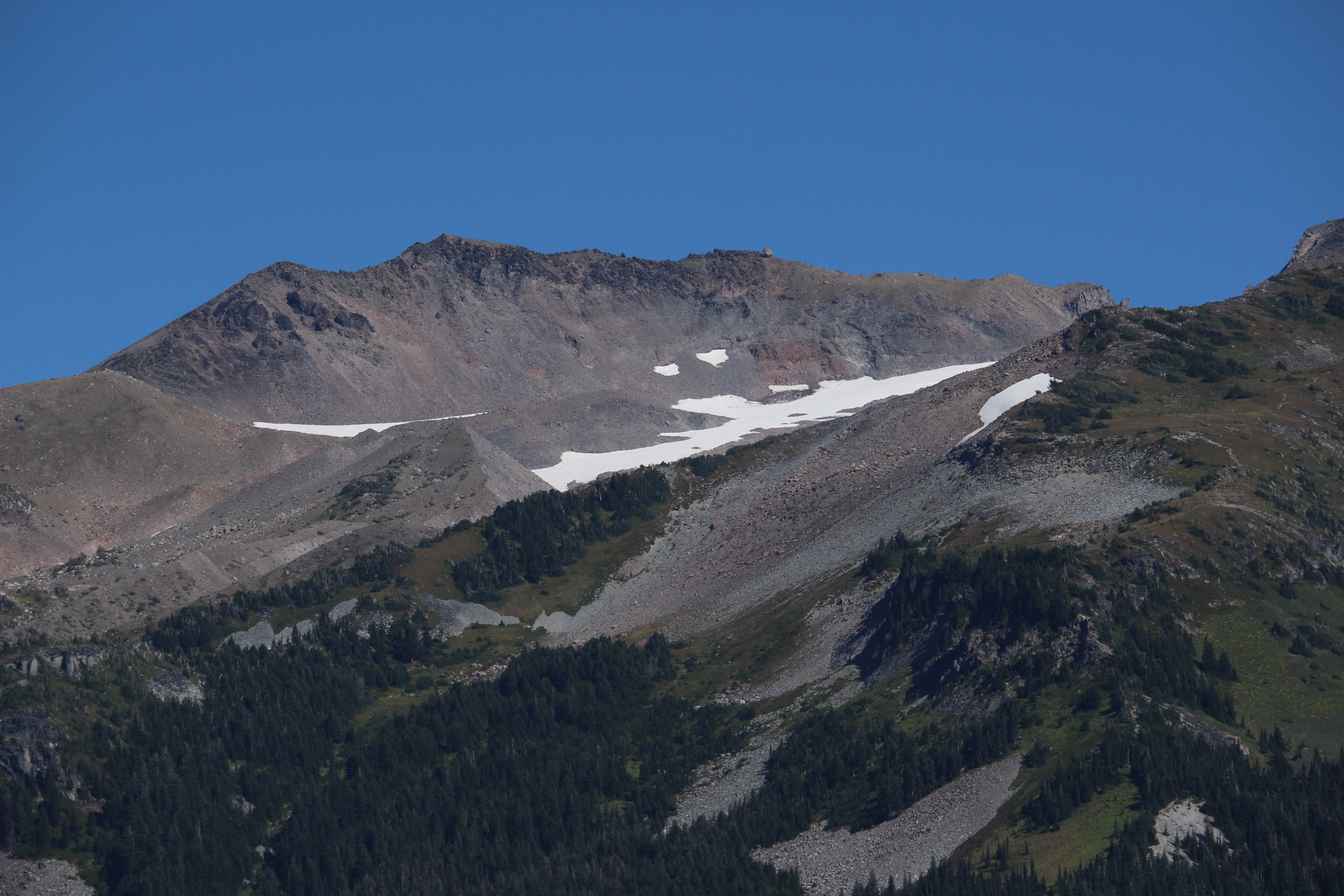 Barrett Spur (7863 feet, skyline) with east margin of Ladd Glacier below; McNeil Point (lower right, forested bluff with scree behind) Viewpoint location: Bald Mountain Trail (unmaintained), Mount Hood Wilderness Viewpoint elevation: 1408 meter (4619 ft) View direction: 101° Location source: Garmin GPSmap 60CSx Location Datum: WGS84